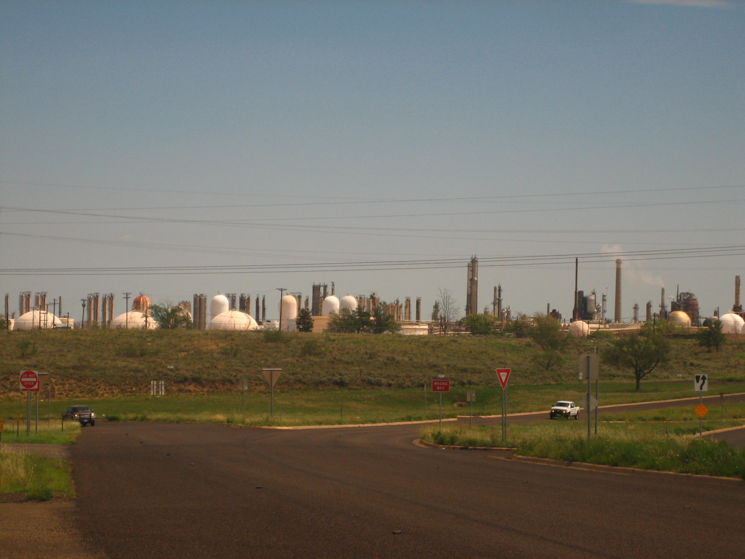 I took photo on July 15, 2008.Billy Hathorn (talk) 21:06, 22 July 2008 (UTC)